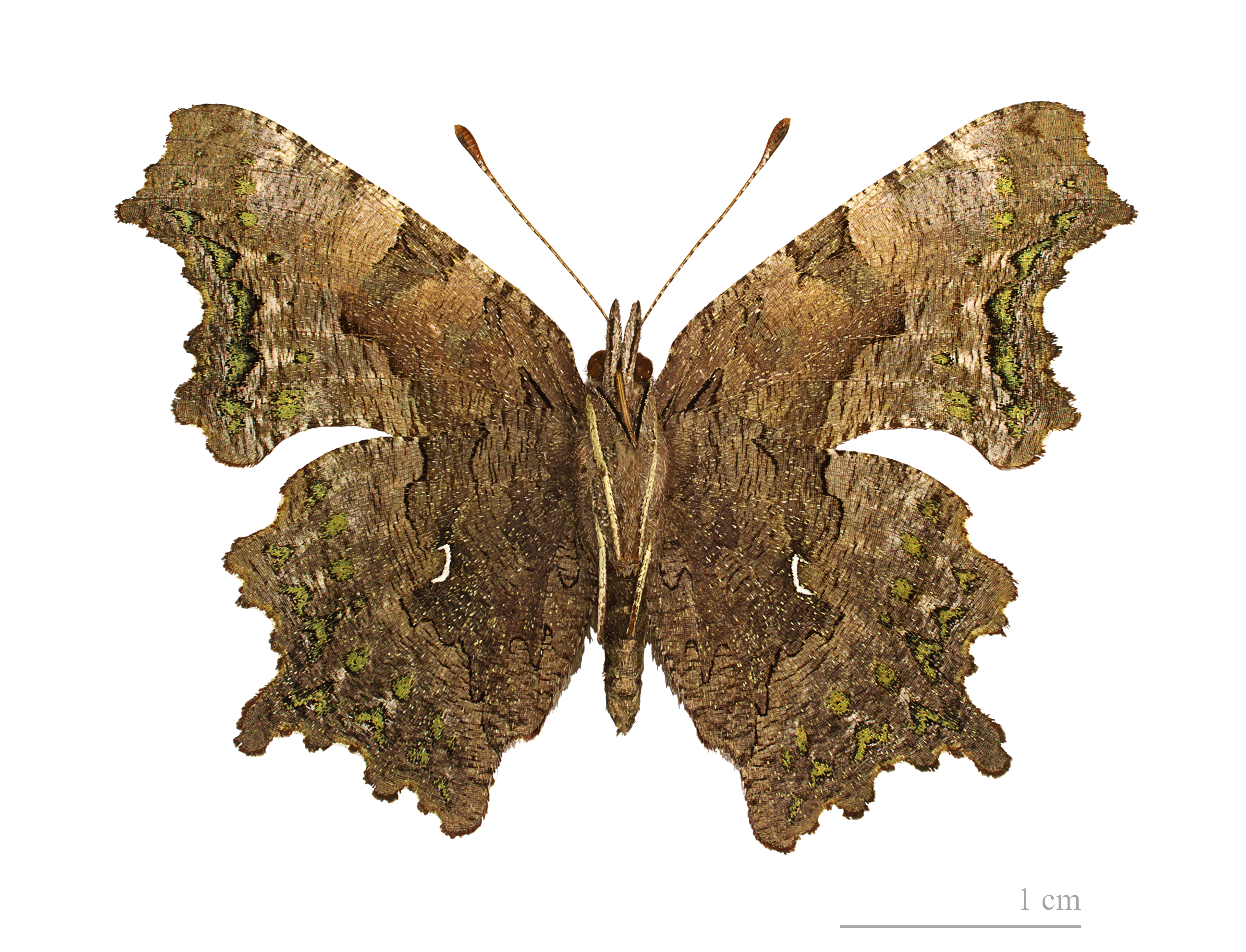 Green Comma ♂ - △ Ventral side Locality: Camp Mercier, Réserve faunique des Laurentides, Quebec, Canada